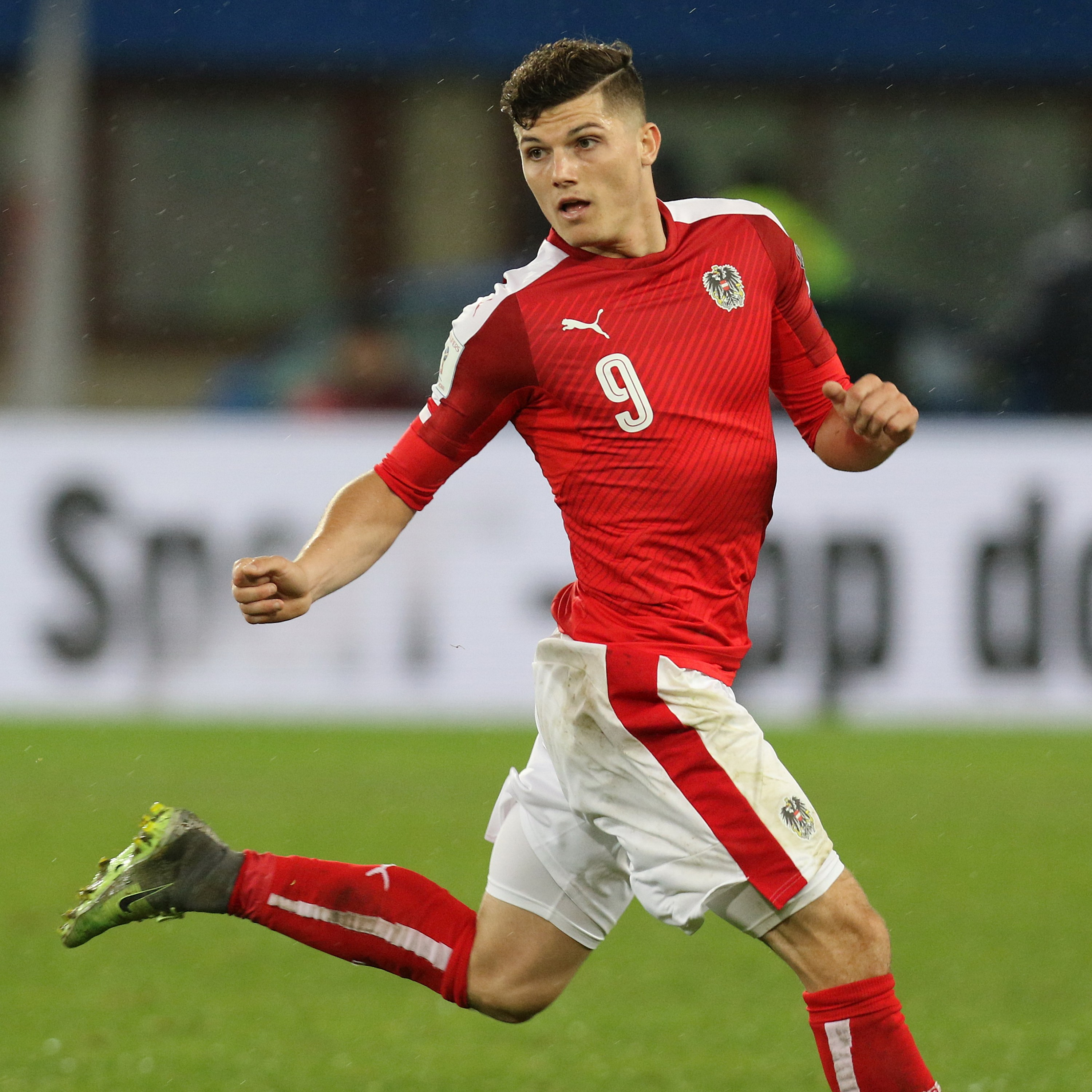 2018 FIFA World Cup qualification – UEFA Group D) – Austria (red shirts) vs. Wales (white shirts) 2-2 (1-2) – 2016-10-06 in Vienna, Ernst-Happel-Stadion – The photo shows Marcel Sabitzer.